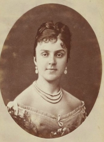 María de las Mercedes de Orleans (1860-1878)